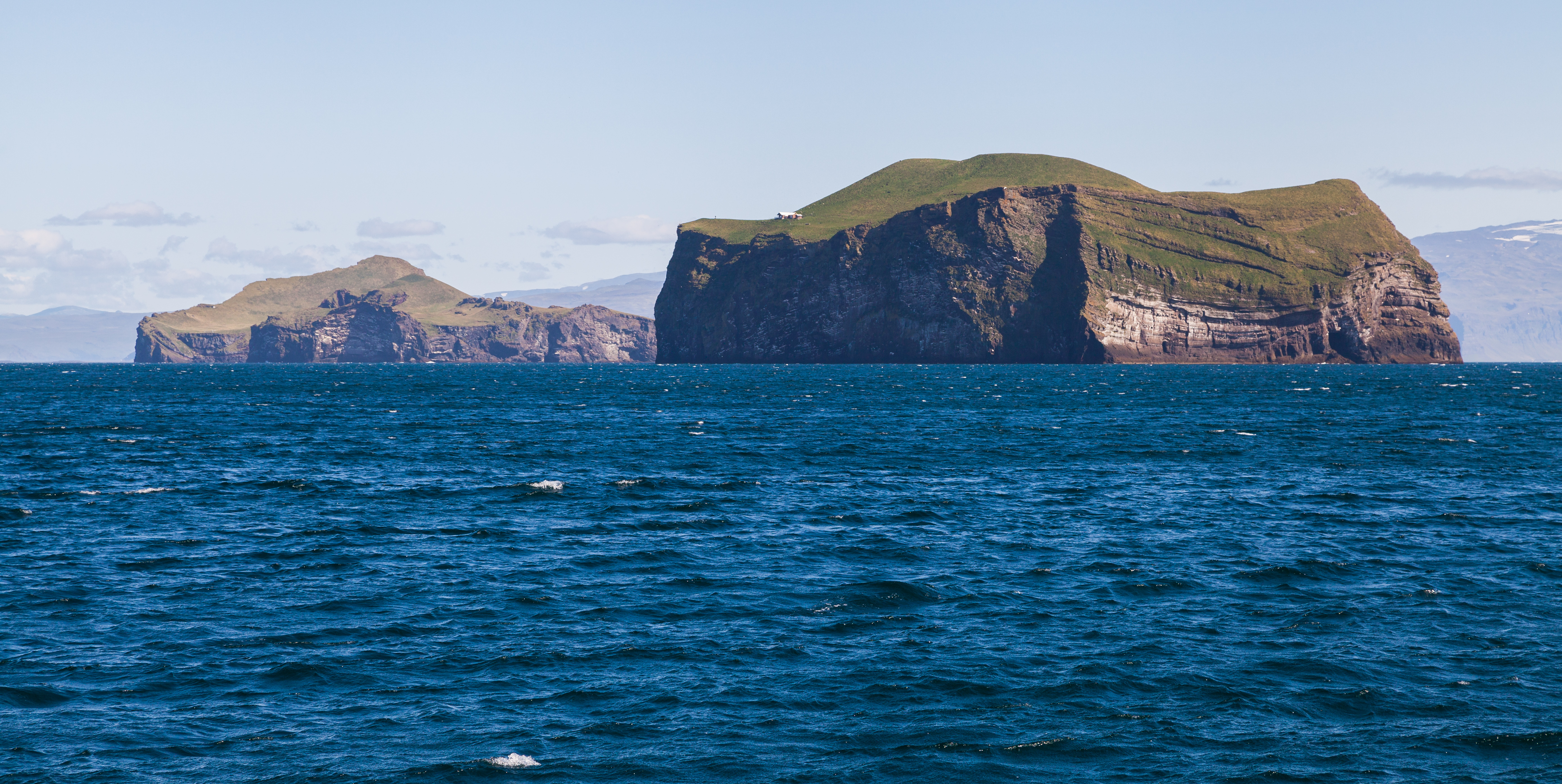 Elliðaey and Bjarnarey islands, Westman Islands, Suðurland, Iceland